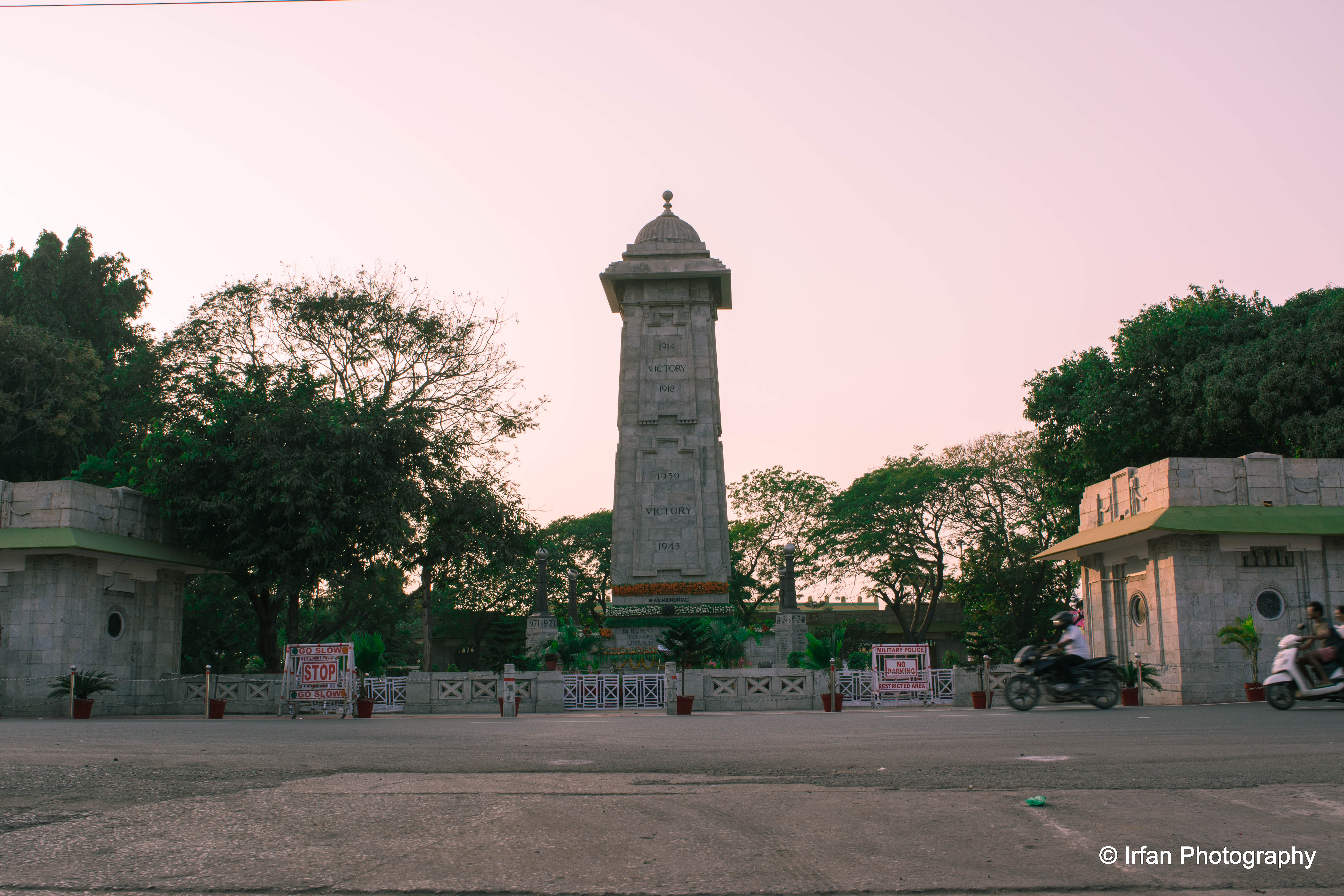 Victory War Memorial Chennai clicked by Irfan Ahmed Photography